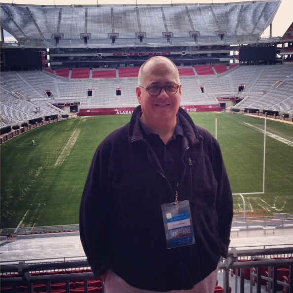 Picture taken of Burns at Davis Wade Stadium.